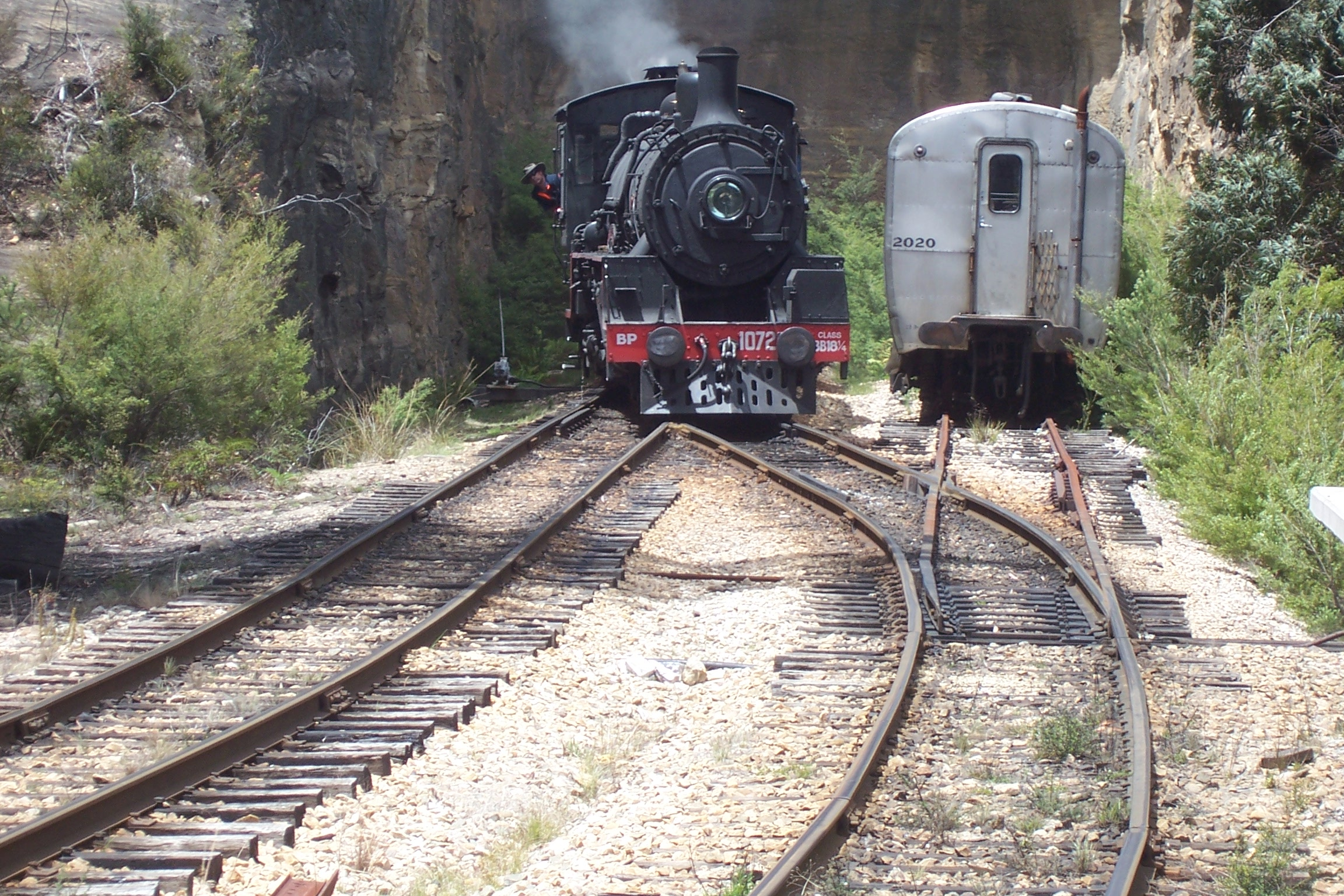 Former Queensland Railways locomotive BB18¼ 1072 at the Top Points run around area of the Lithgow Zig Zag, NSW, Australia